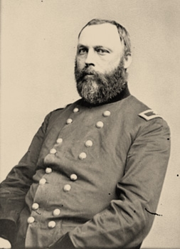 William Alexander Hammond, Surgeon General of the U.S. Army